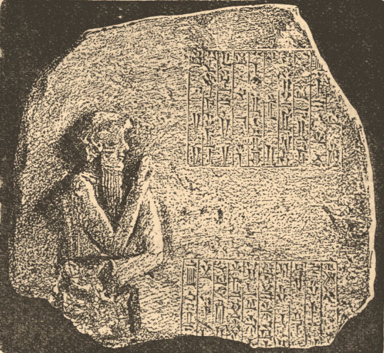 Illustration from Brockhaus and Efron Jewish Encyclopedia (1906—1913). Amraphel.